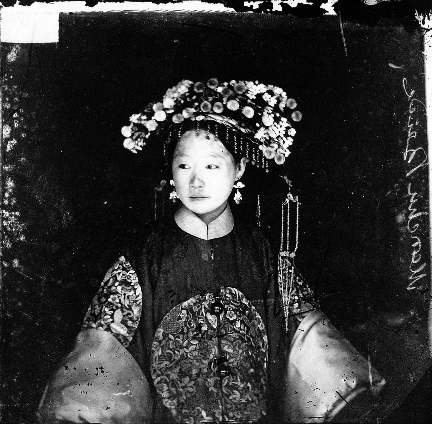 Manchu bride in her wedding clothes, Peking, Penchilie province, China Iconographic Collections Keywords: Portraiture; China; John Thomson; J. Thomson